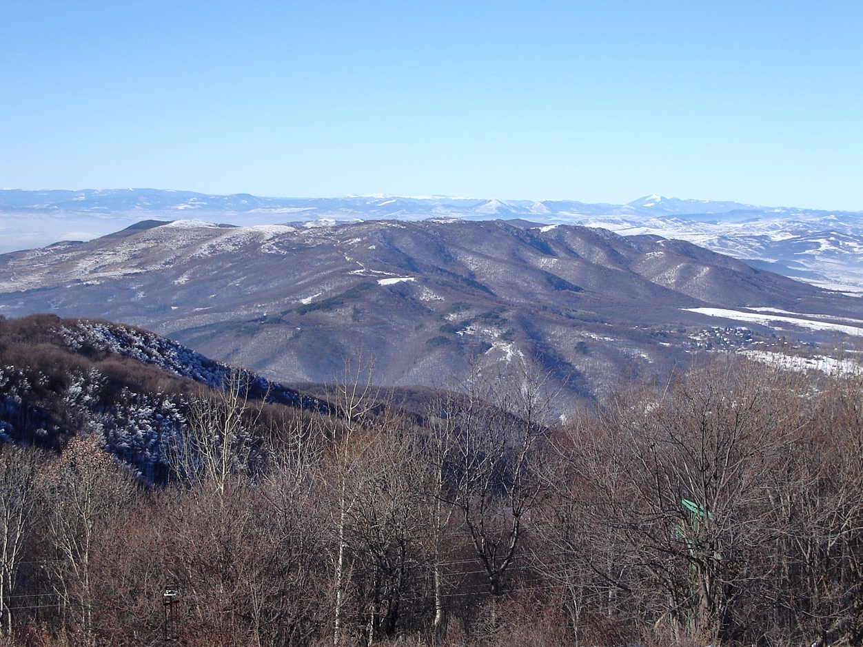 Lyulin Mountain from Vitosha Mountain, Bulgaria. Photograph by Nikolay Rainov published in under Creative Commons license 2.5.